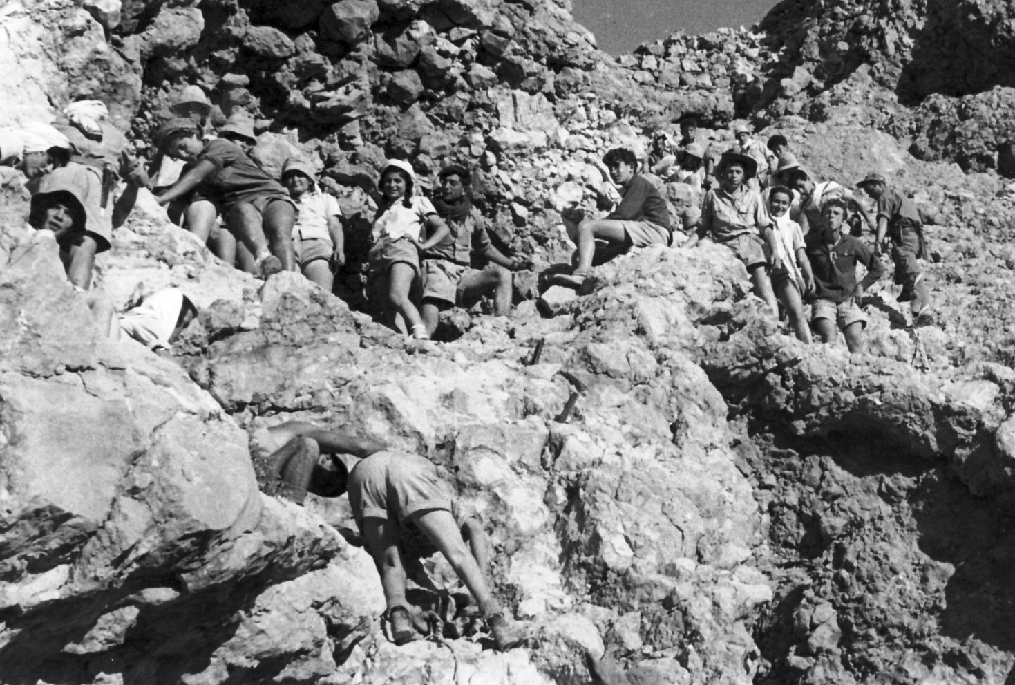 Gan-Shmuel - a trip-climbing to Massada 1951, Education in Israel